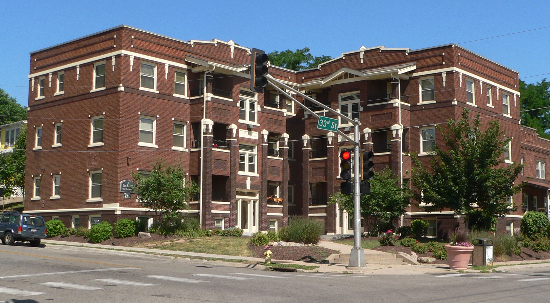 Melrose Apartments, located at 602 N. 33rd Street (northwest corner of 33rd and California) in Omaha, Nebraska; seen from the southeast.